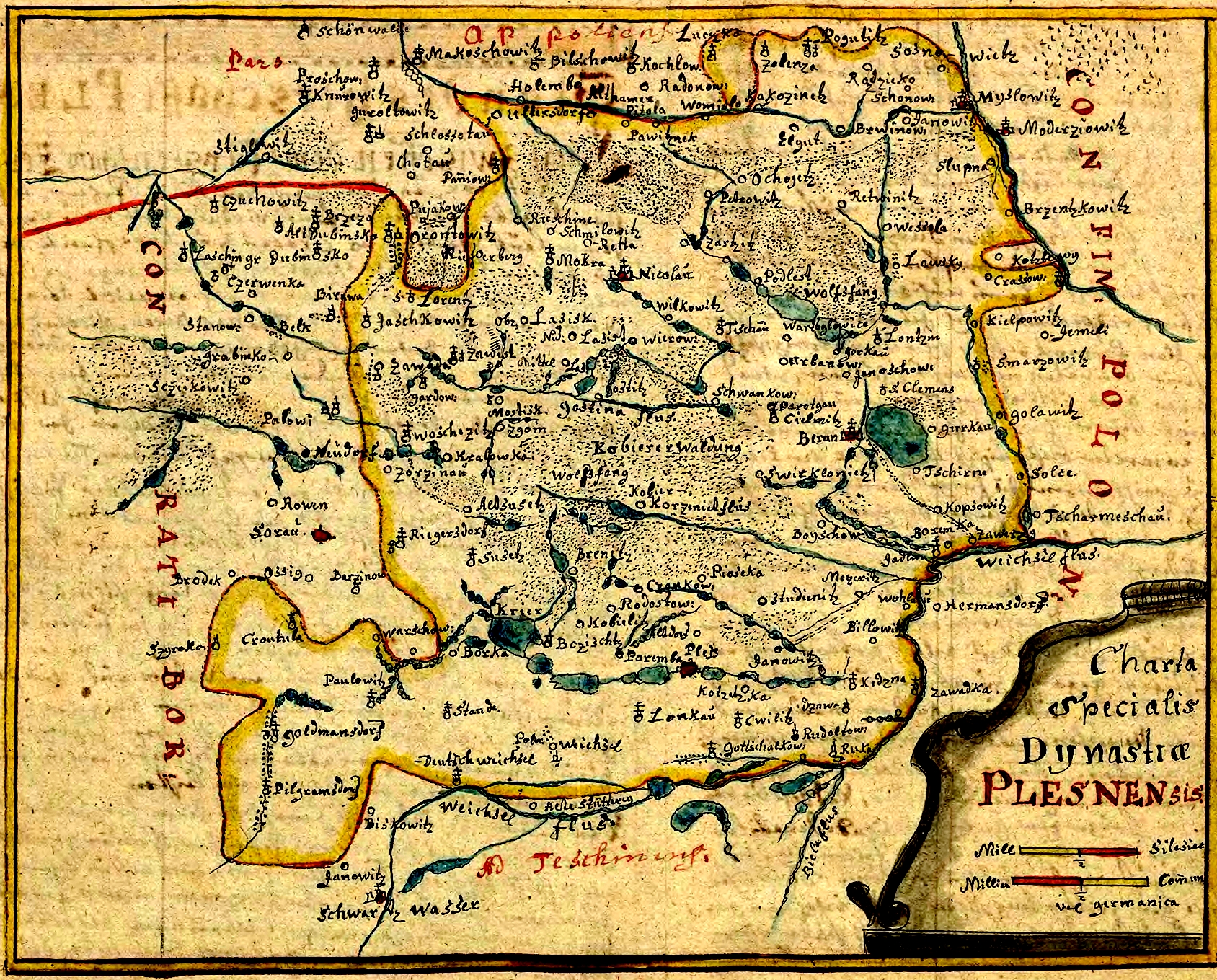 Charta specialis Dynastia Plesnensis - a map of Duchy of Pless from 18th century.